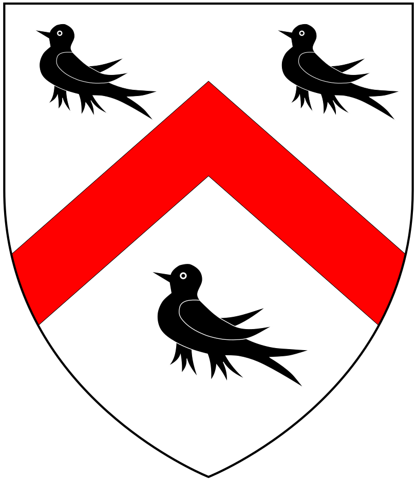 Arms of Hayne of Hayne in the parish of Stowford, Devon: Argent, a chevron gules between three martlets sable (Pole, Sir William (d.1635), Collections Towards a Description of the County of Devon, Sir John-William de la Pole (ed.), London, 1791, p.486)